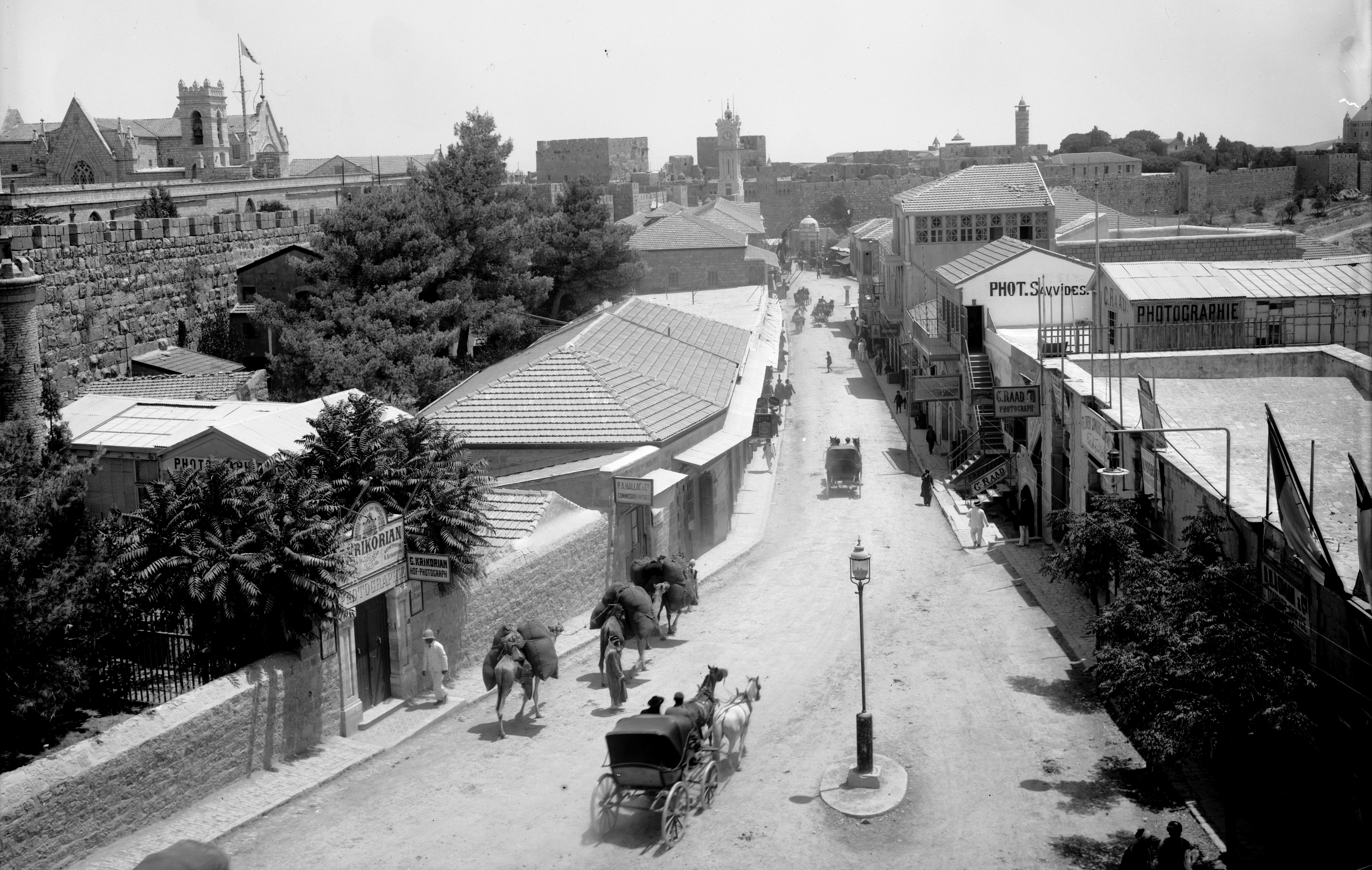 Jaffa Road in Jerusalem, Israel (between 1898 and 1914). Original caption: "Jerusalem (El-Kouds). The Jaffa Road, main thoroughfare of the new city"